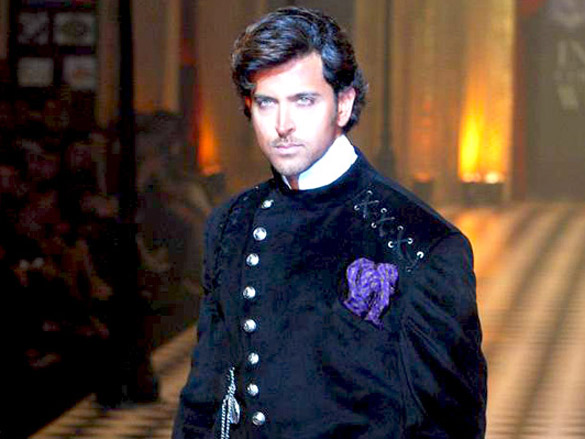 Hrithik Roshan at HDIL India Couture Week 2010 walking the ramp sporting designs by designers Karan Johar and Varun Bahl.